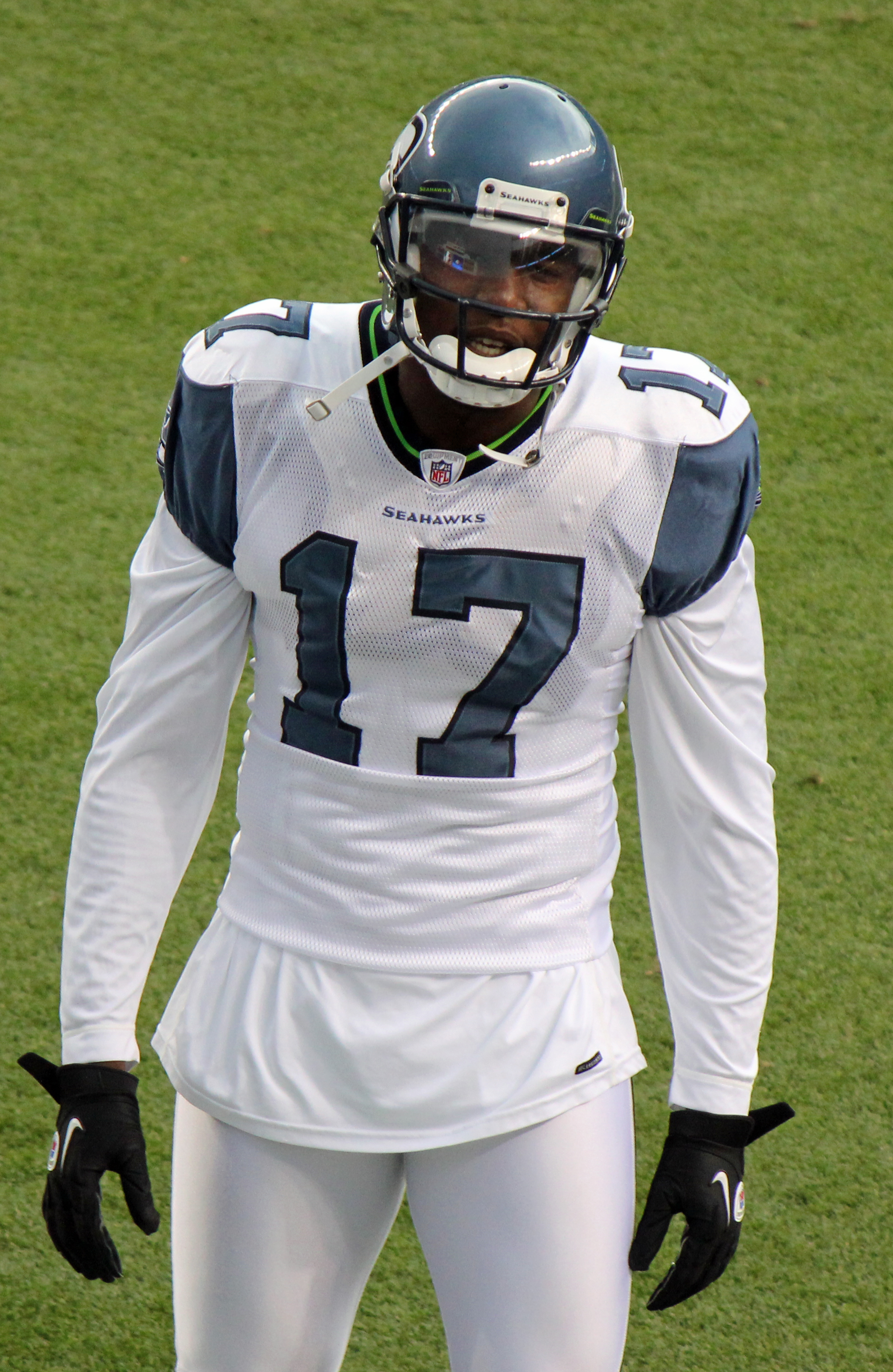 Mike Williams, a player (wide receiver) on the National Football League.